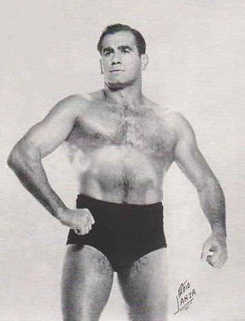 Lou Thesz photographed by Tony Lanza